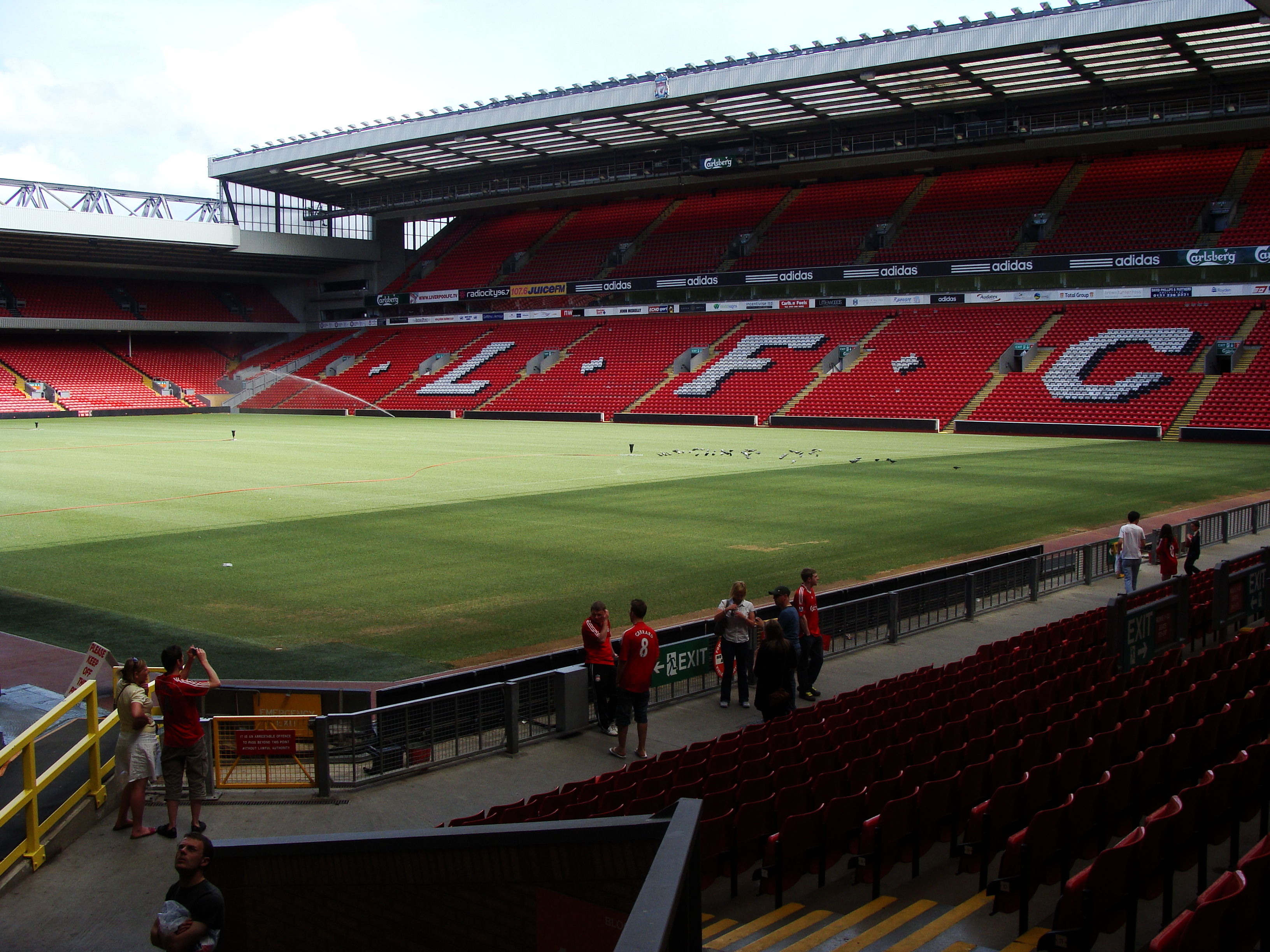 The view from the Kop